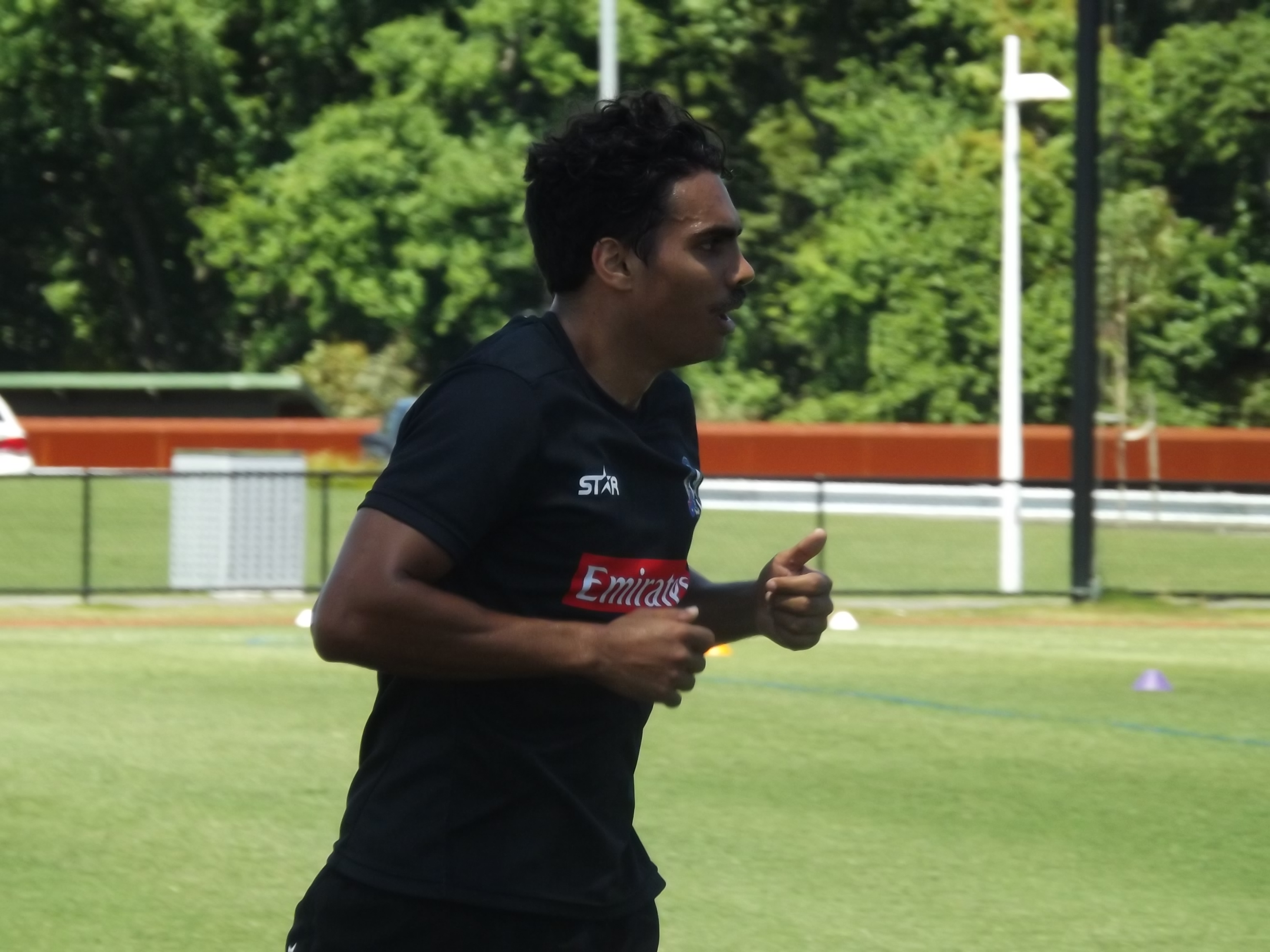 Tony Armstrong with Collingwood during an open training session at Olympic Park, Melbourne.